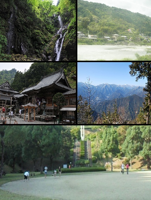 Kamiyama montage